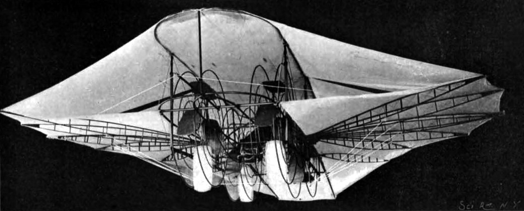 The Ezekiel Airship was profiled in the October 12, 1901 issue of Scientific American. here a photo is depicted of the prototype. The article describes some of the aircraft's specifications, such as its planned engine speed of 400 to 1,200 revolutions per minute, as well as an overview of Cannon's approach to heavier-than-air flight.